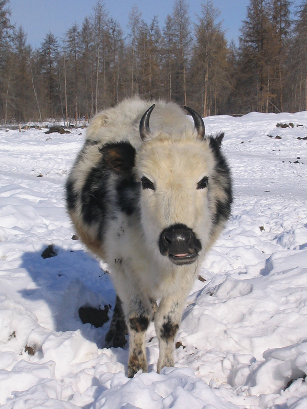 Front-on view of a female Yakutian cattle in the Eveno-Butantay district of the Sakha Republic in the Russian Federation.